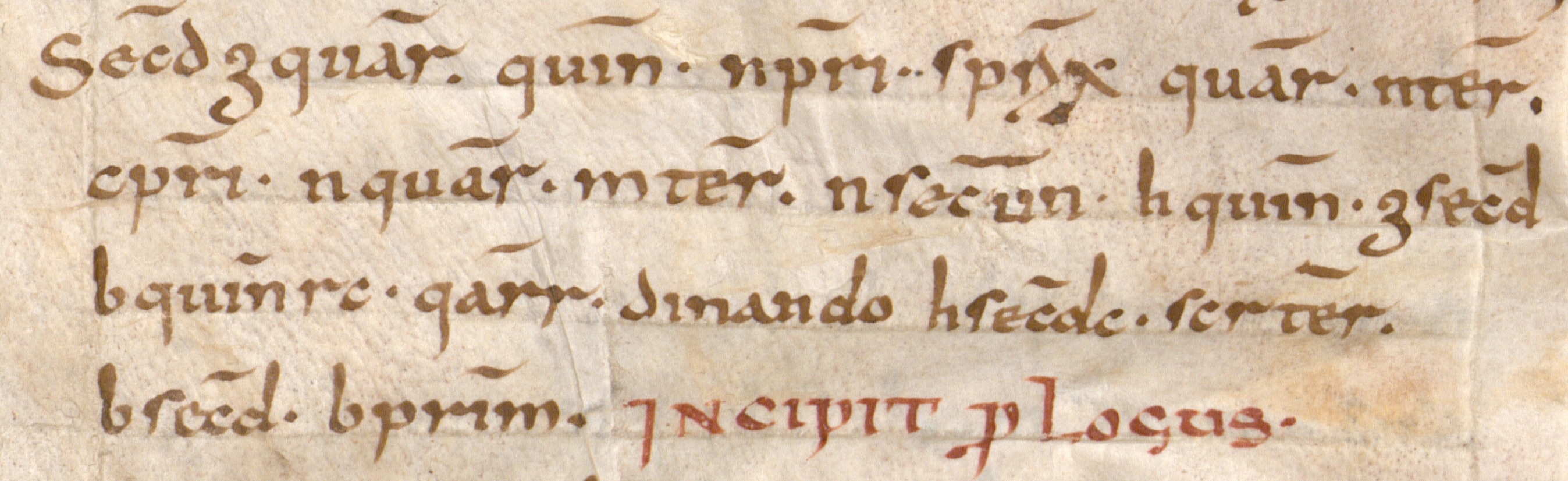 MS Clm 1086, folio 71v. Detail of the cryptogram with Hugeburc's name.